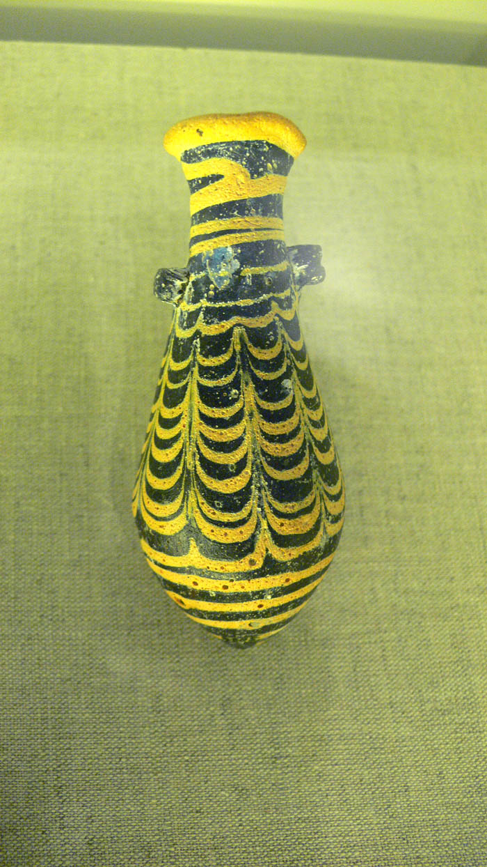 Punic flask found in the phoenician necropolis of Puig des Molins. Museum of Puig des Molins in Ibiza (Spain).